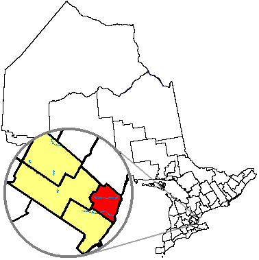 The Town of Oakville, Ontario location image with Oakville being red. Used in Template:Canadian City info box.